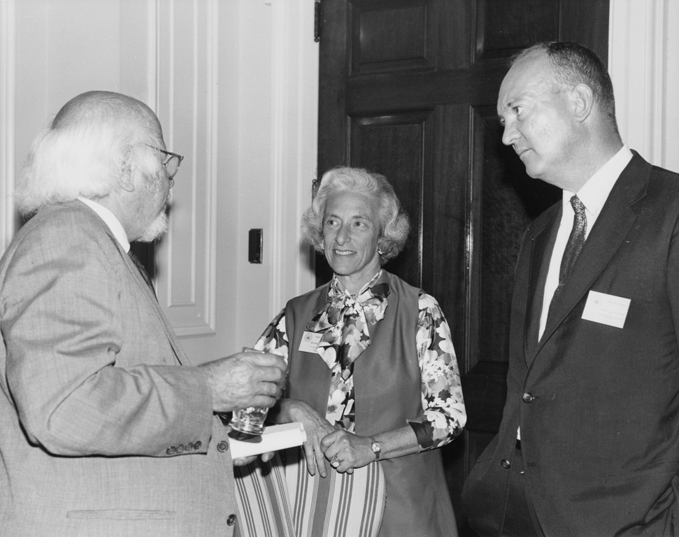 Barbara W. Tuchman (center), William Shirer (left), and John Eisenhower at the Conference on Research and World War II and the National Archives, June 14-15, 1971. Original Caption: William Shirer (left), Barbara W. Tuchman (center), and John Eisenhower at the Conference on Research and World War II and the National Archives, June 14-15, 1971. U.S. National Archives’ Local Identifier: 64-NA-5069 Subjects: United States National Archives Personnel Persistent URL: Repository: Still Picture Records Section, Special Media Archives Services Division (NWCS-S), National Archives at College Park, 8601 Adelphi Road, College Park, MD, 20740-6001. Access Restrictions: Unrestricted Use Restrictions: Unrestricted